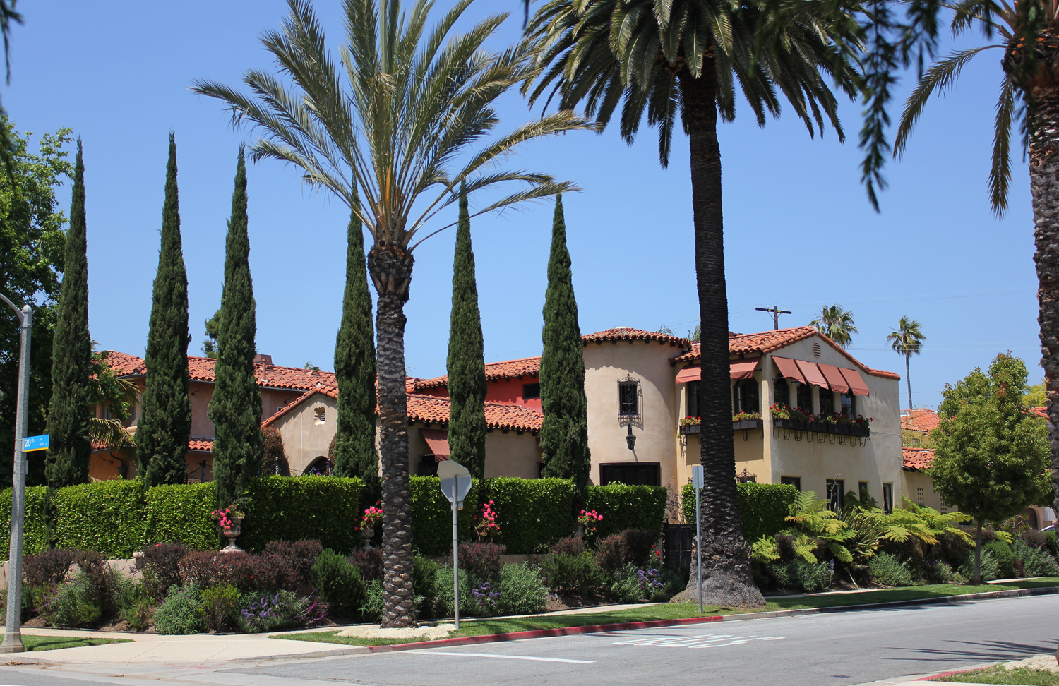 Typical home in the North of Montana neighborhood in Santa Monica, California - Zip code 90402, among the most expensive in California and in the U.S.